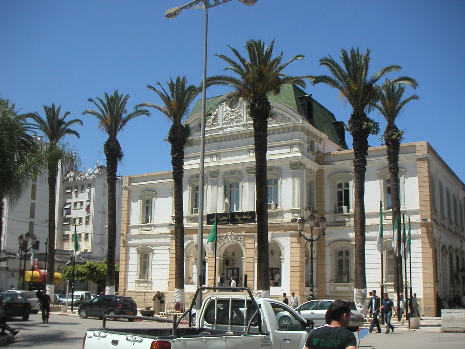 El-Harrach city hall